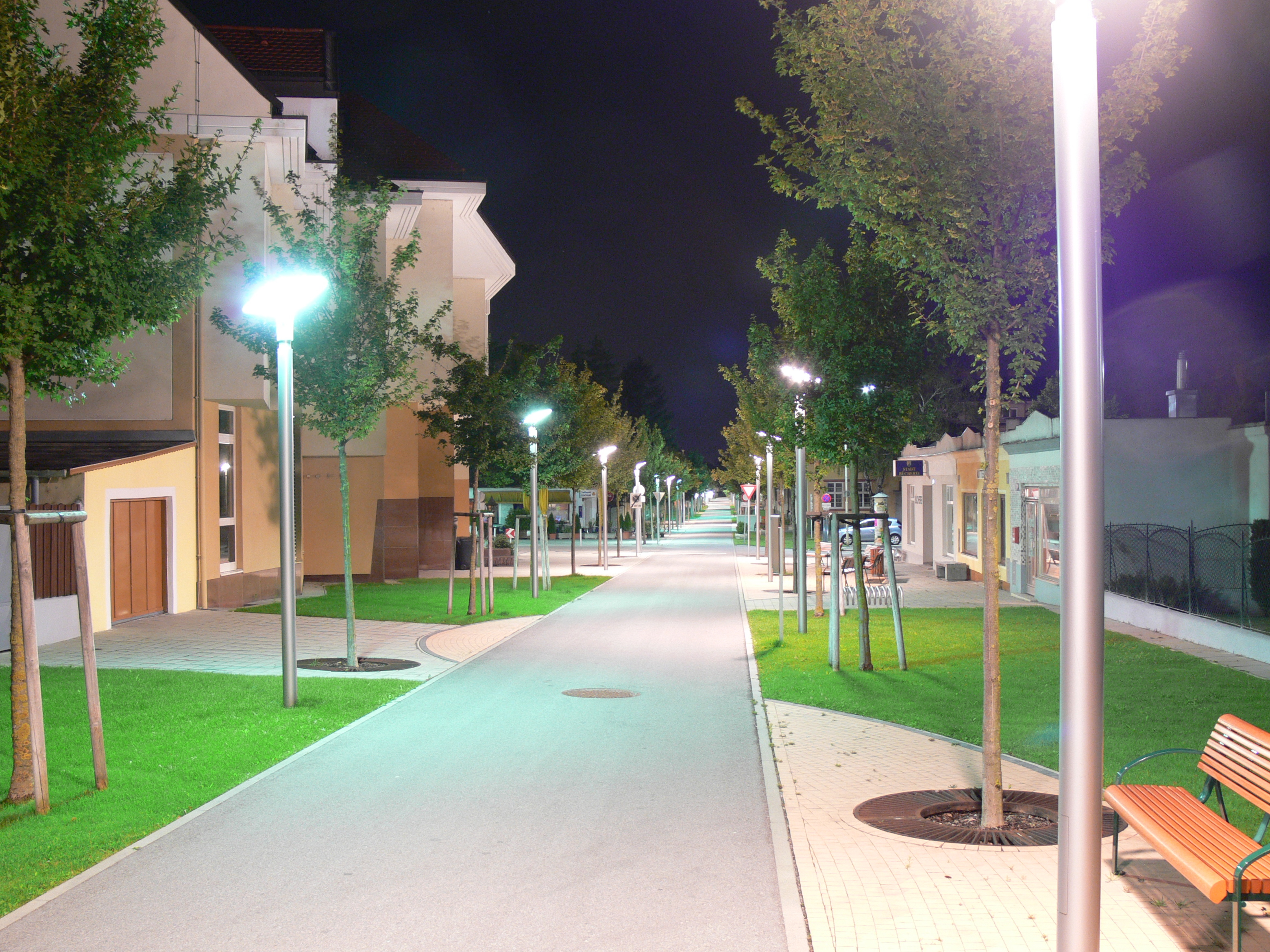 Deutsch-Wagram Freidhofallee